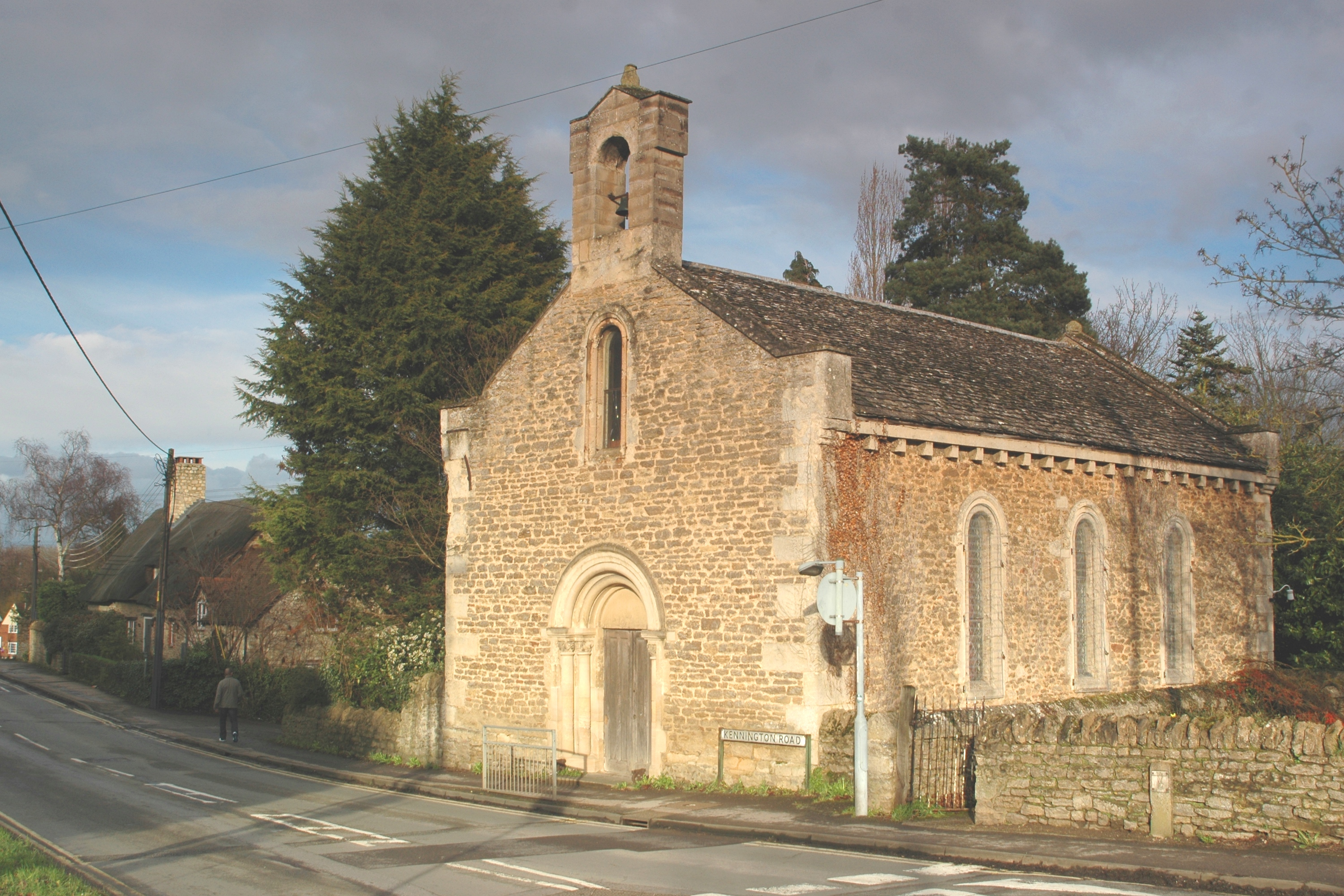 Former church of England parish church of St Swithun, Kennington, Oxfordshire (formerly Berkshire)